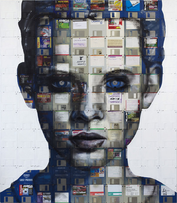 "Digital Montage Number 2". Floppy disk painting by Nick Gentry